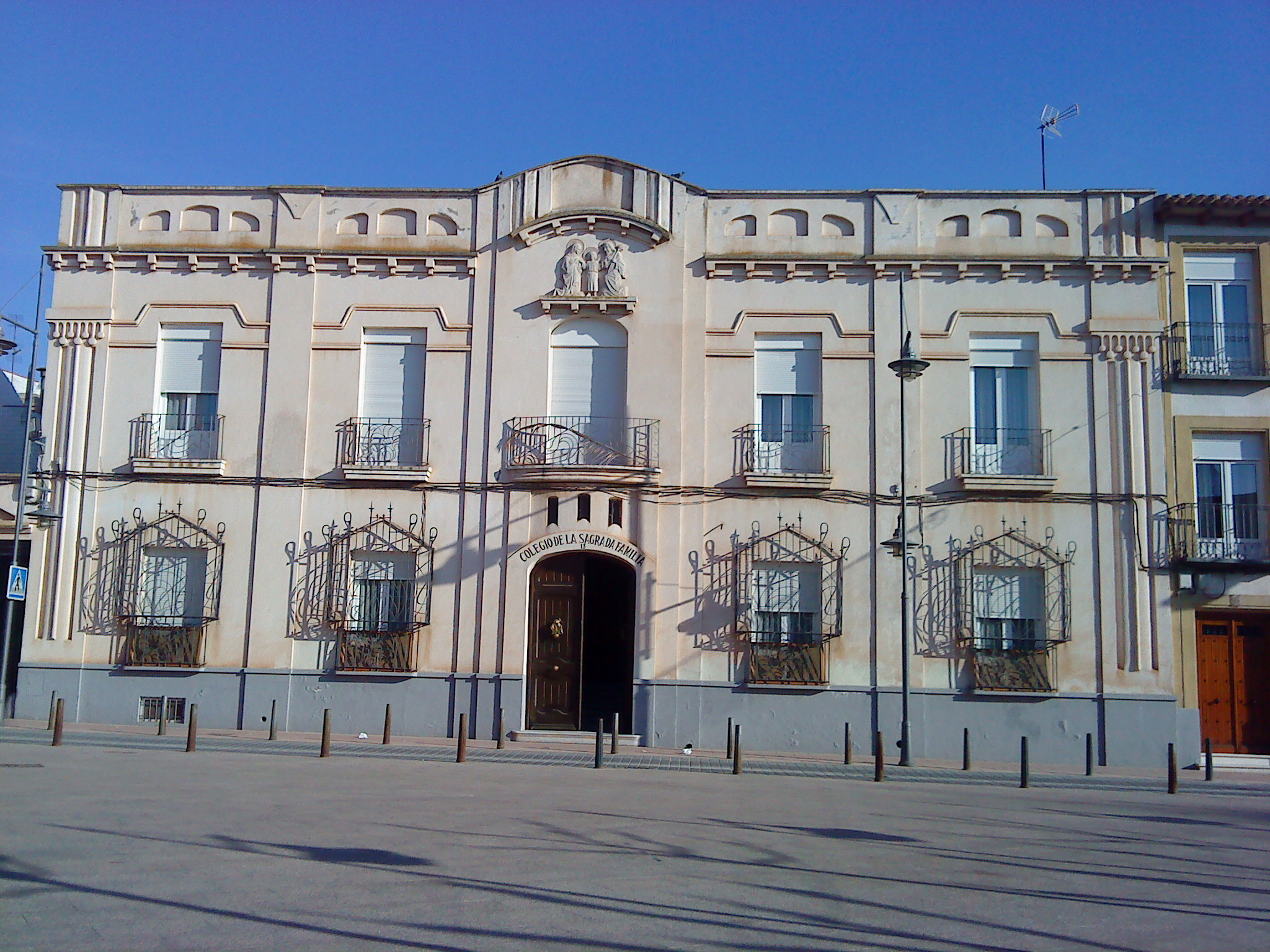 Oliverio Martínez Mier's Palace